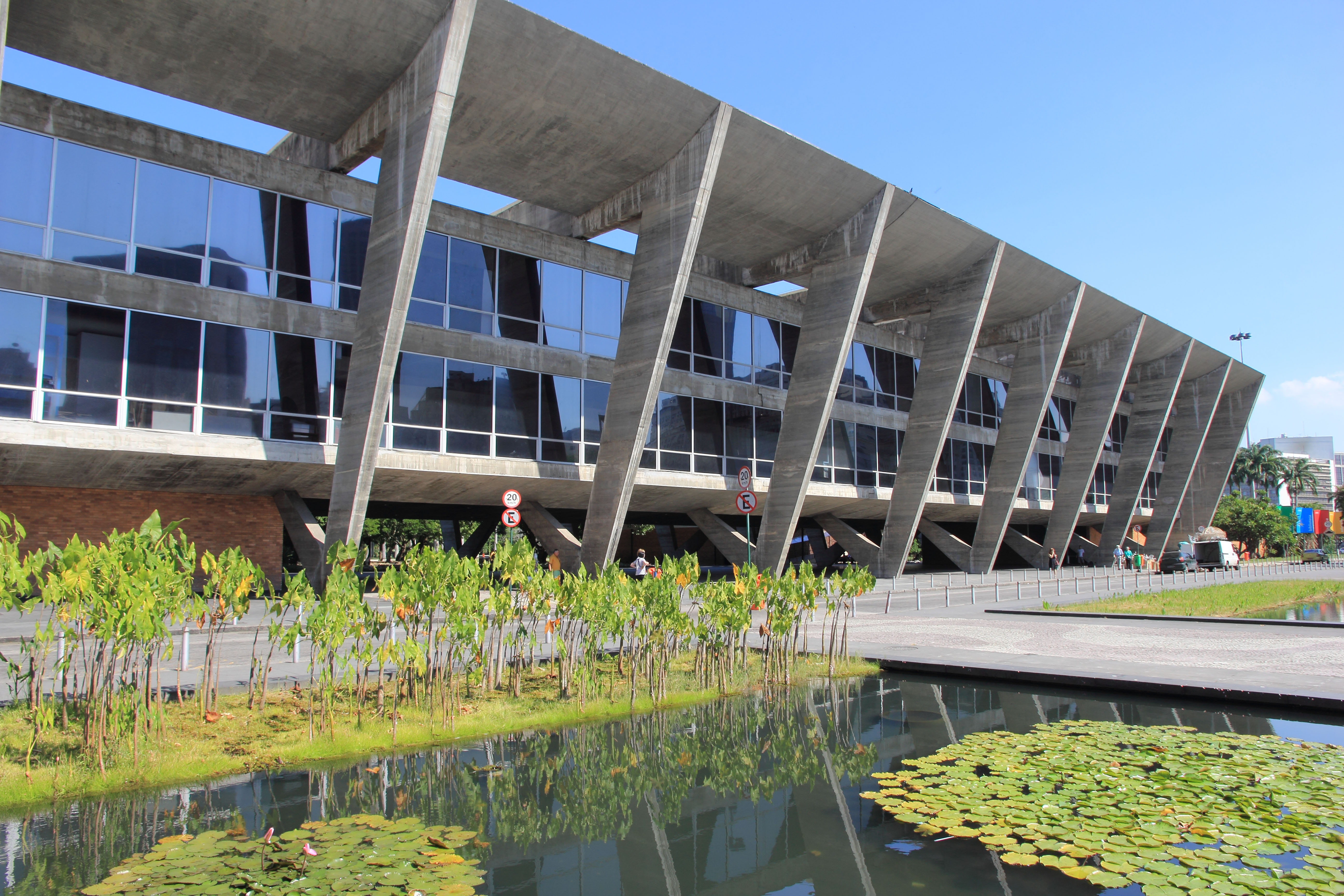 Rio de Janiero Museum of Modern Art—MaM — Flamengo Park (Aterro do Flamengo)